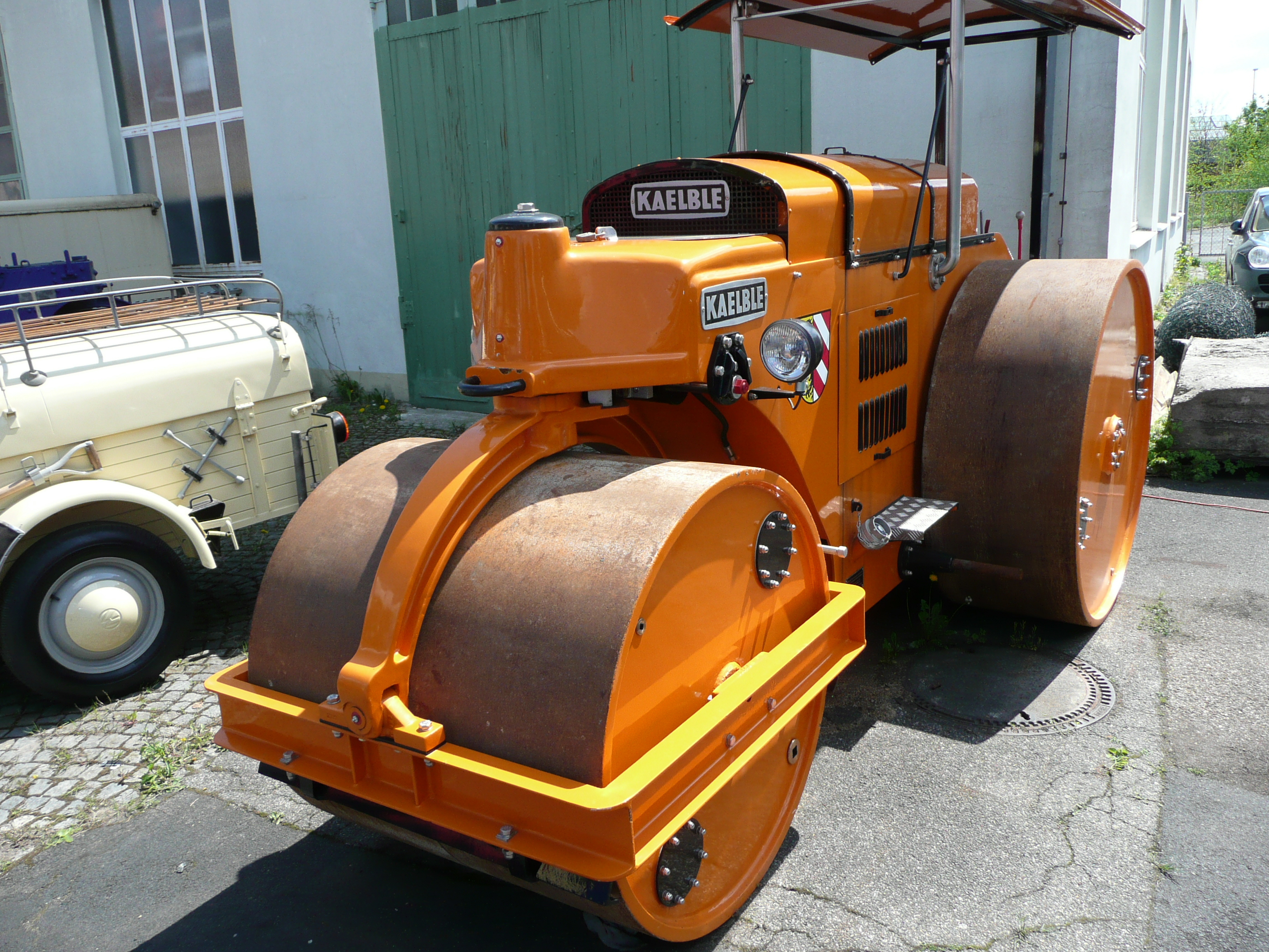 Kaelble road rollers Nuremberg